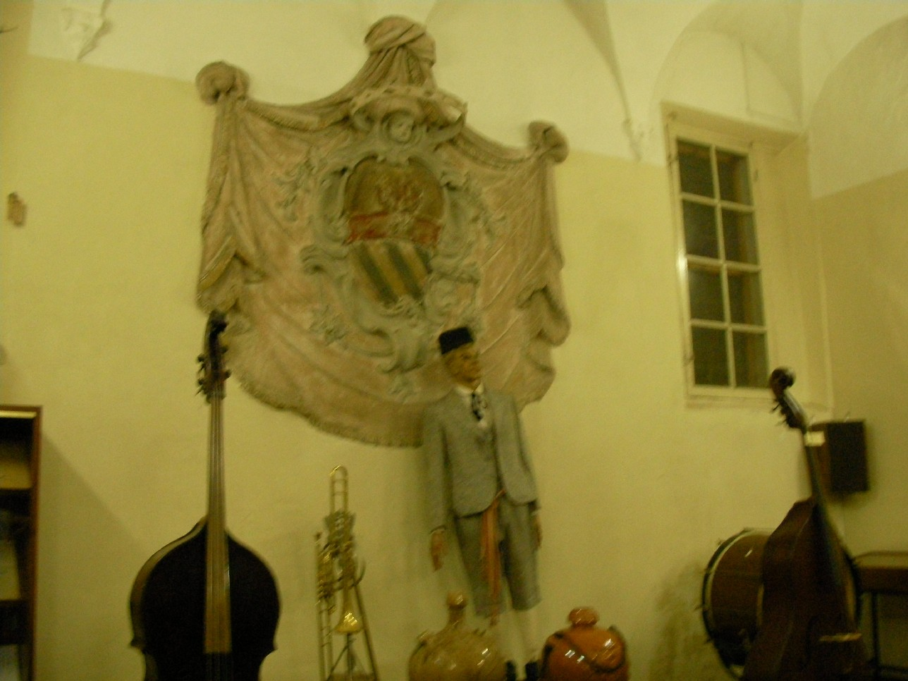 Inside of a room of the inferior plan of palce Gaddi to Forlì, where there is the museum of the theater and the revival.